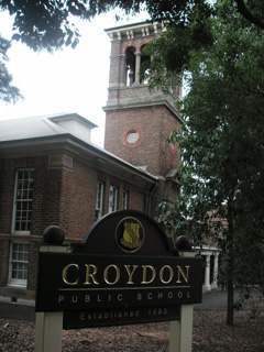 Original Croydon Public School building from 1888